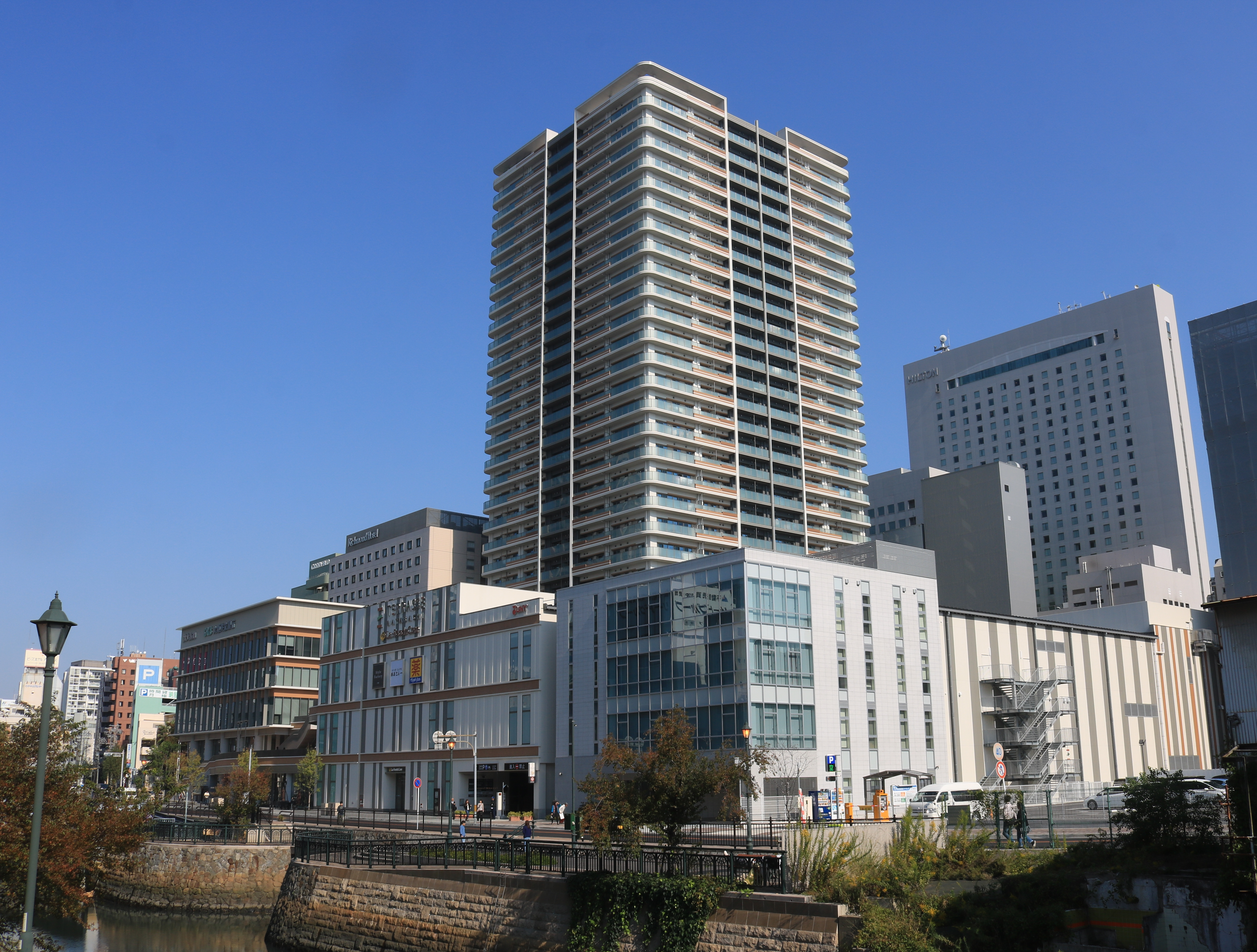 Proud Tower Nagoya Sakae in Sakae, Naka-ku, Nagoya, Aichi Prefecture, Japan.